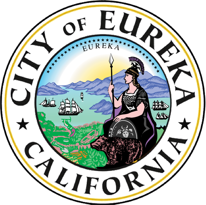 The city seal of the city of the Eureka is the same as the California State Seal except for the ring around the edge with the city name on it. The state seal image came from File:California-StateSeal.svg; the lettering around the edge was added in Photoshop Elements.